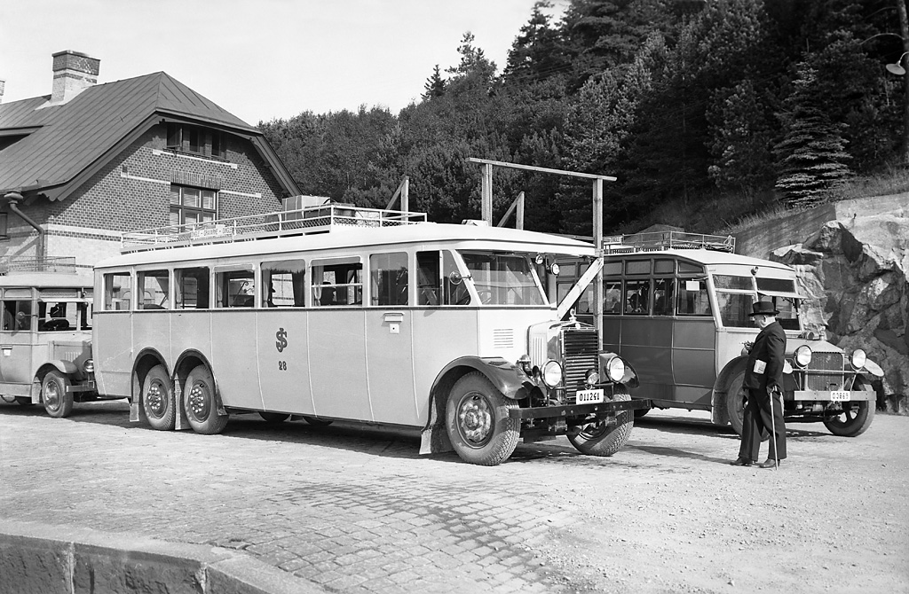 Buses of the Swedish State Railways waiting for the train at Dingle railway station. The bus in front to the right is an American Garford from 1923. SJ-bussar som väntar på tåget vid järnvägsstationen i Dingle. Bussen längst fram till höger är en amerikansk Garford från 1923. Parish (socken): Svarteborg Province (landskap): Bohuslän Municipality (kommun): Munkedal County (län): Västra Götaland Photograph by: Mårten Sjöbeck Date: 1931 Format: Film Persistent URL: Read more about the photo database (in english)